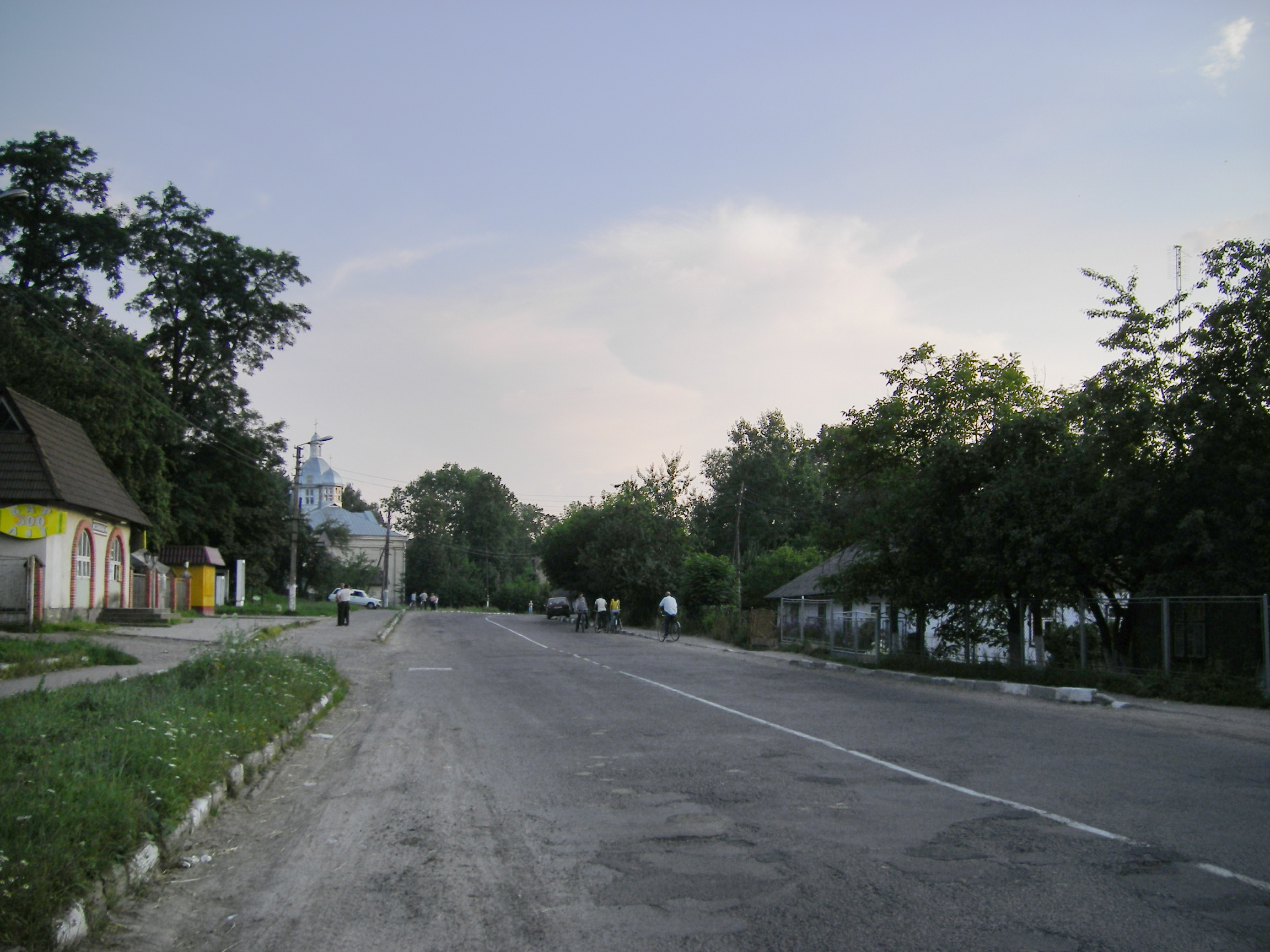 Main Street of Medenichy, Drohobych Raion.